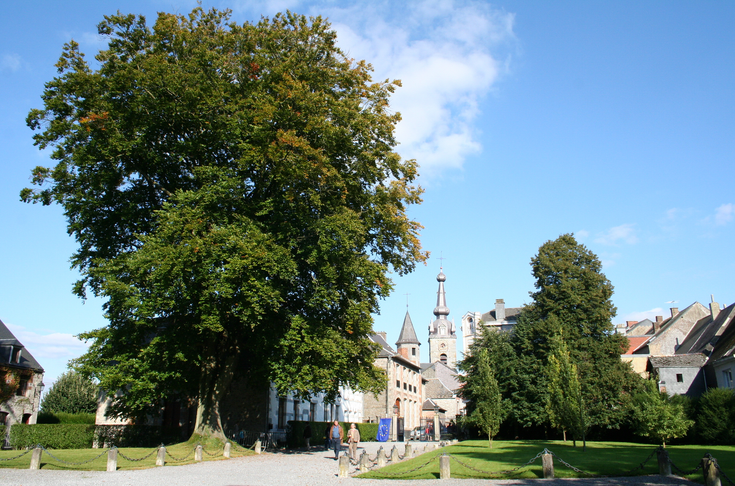 Chimay (Belgium), downtown as seen from the courtyard of the castle of the princes.